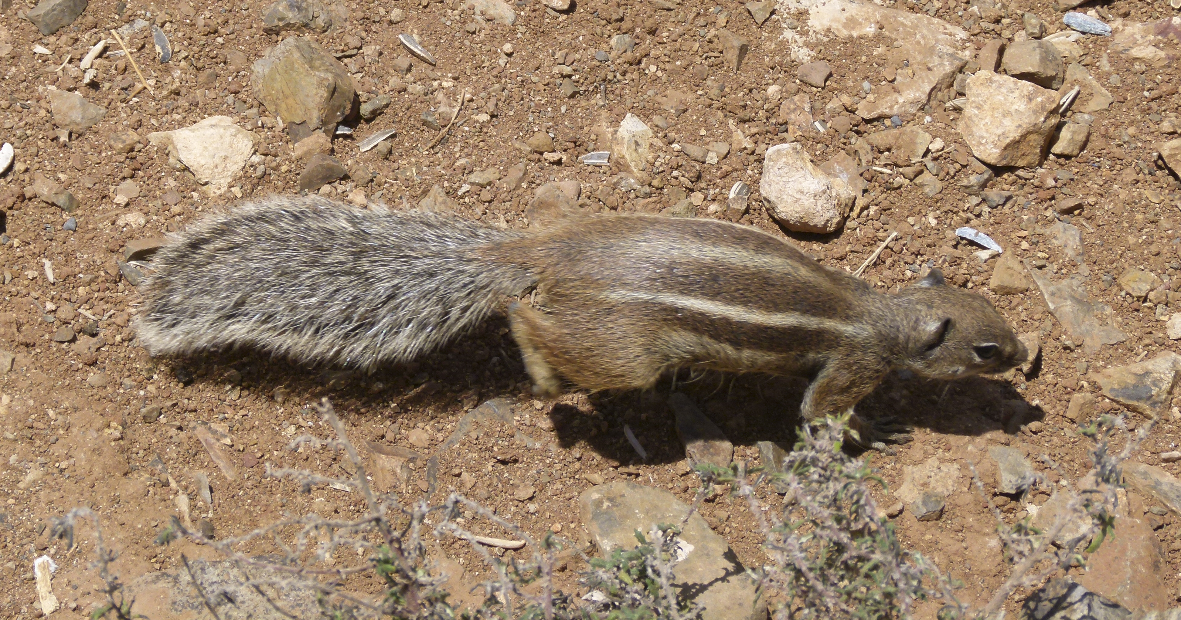 Atlantoxerus getulus nahe Salinen Carmen - salt-museum - Fuerteventura - Canary islands - Spain.